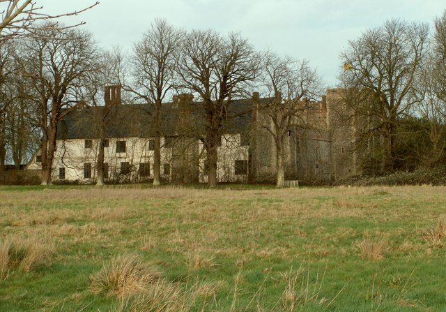 Wingfield Castle This is the view from Vicarage Road. During the summer months it is well hidden by the trees and only viewed then when it is open to the public. It was built by Michael de la Pole during the 14th century.